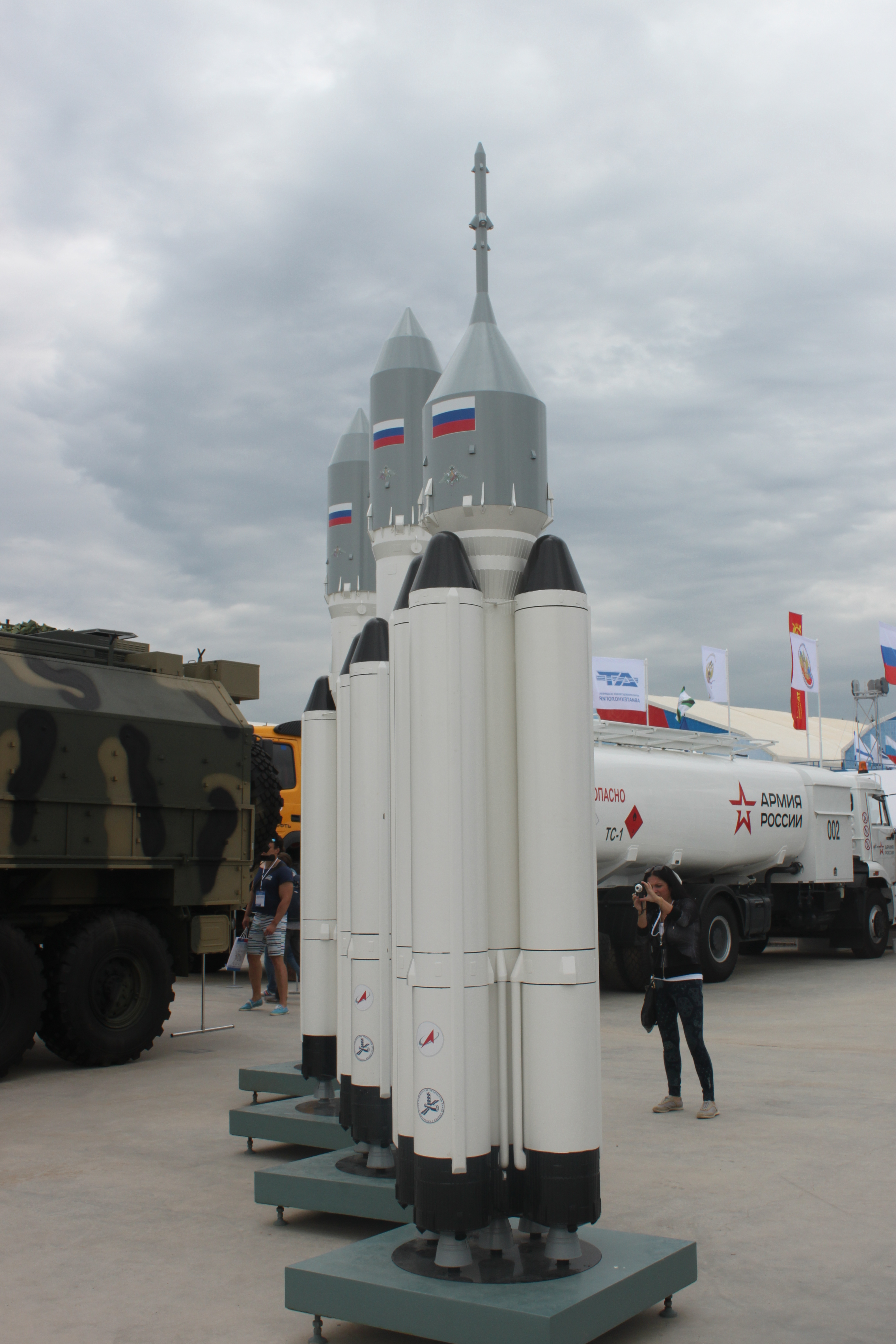 Patriot Park in Kubinka.